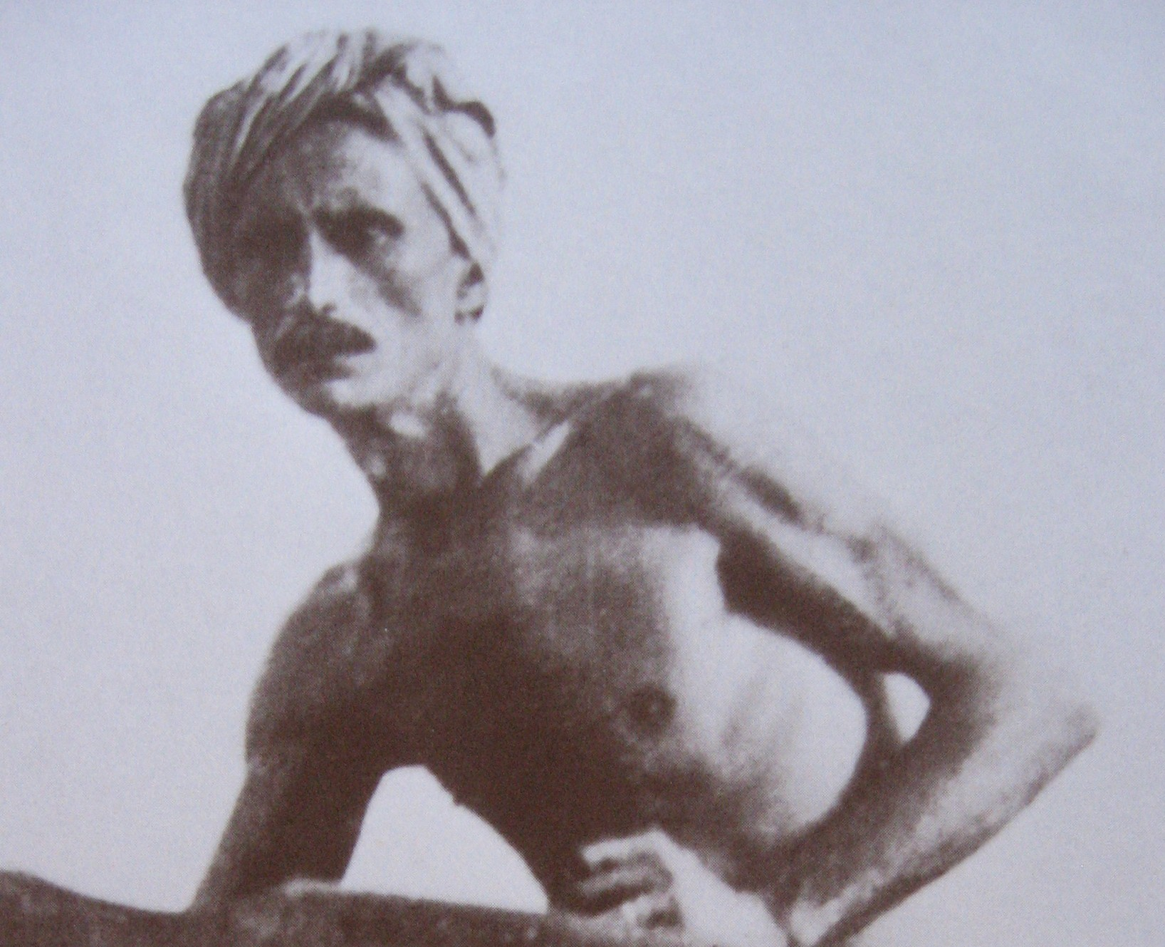 Photo of Henry de Monfreid, from a 1937 movie in which he played his own character.